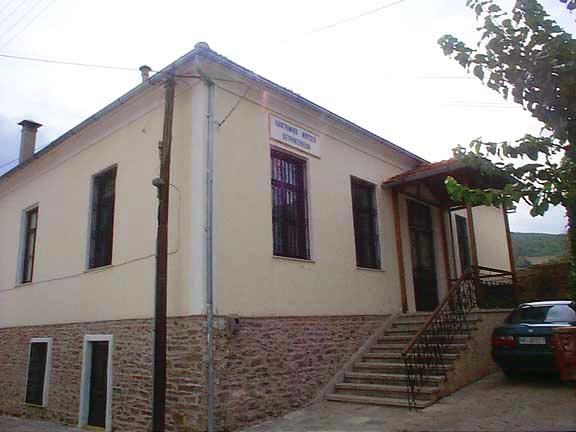 Outside View, image from the Folklore Museum, Petrokerassa, Central Macedonia, Greece